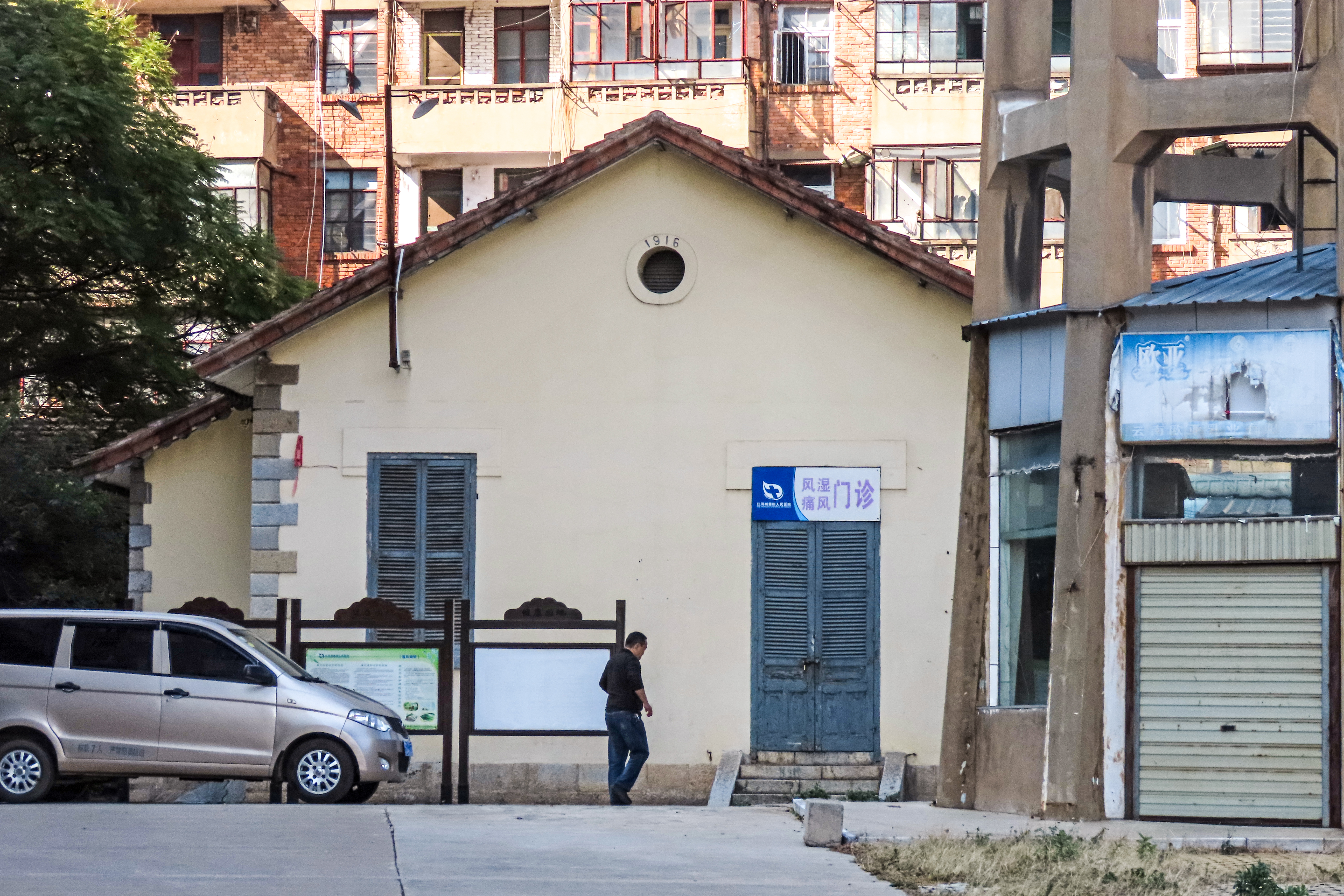 Built in 1916.